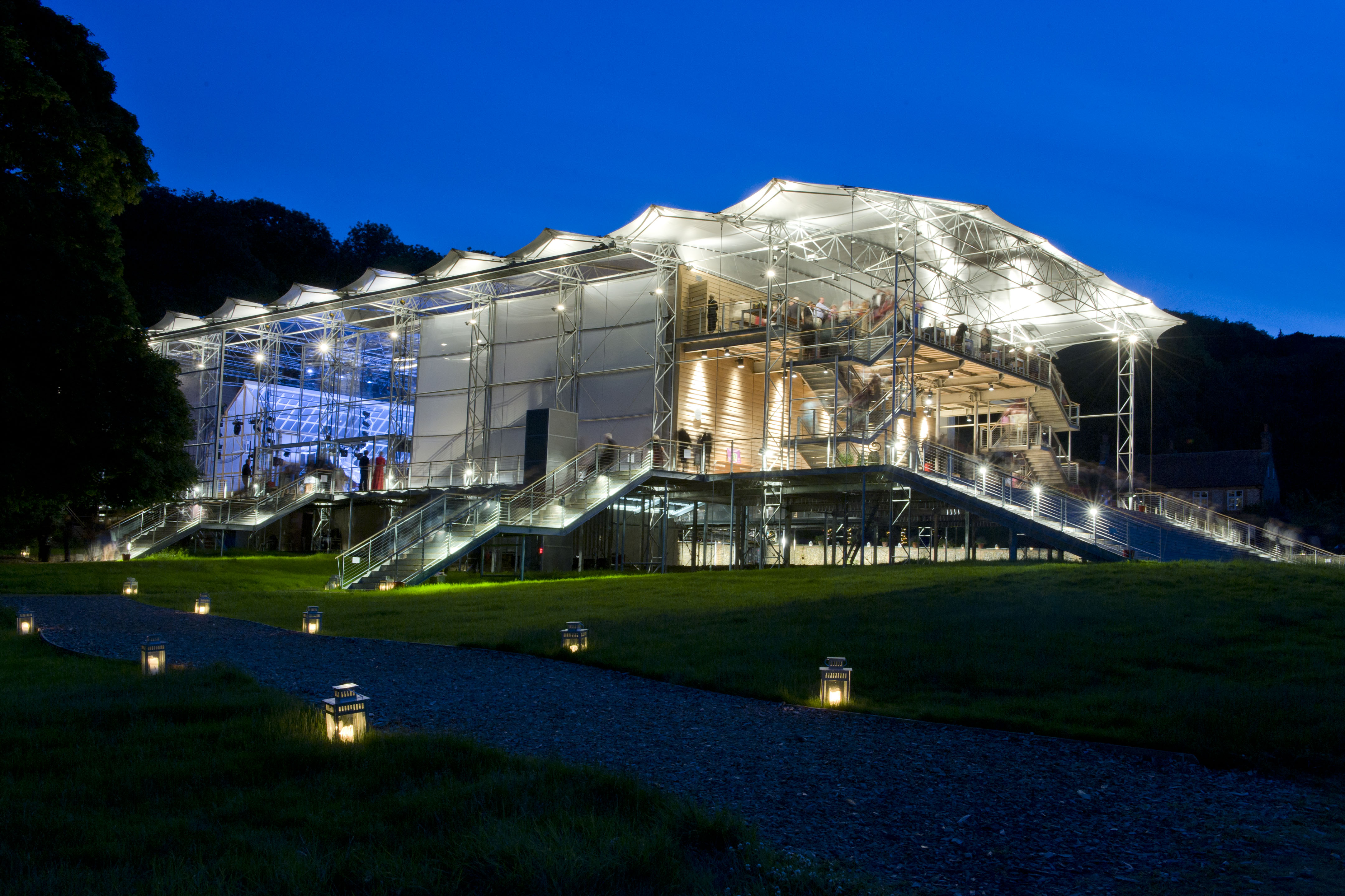 Garsington Opera's 600-seat auditorium at Wormsley Estate, Buckinghamshire, England